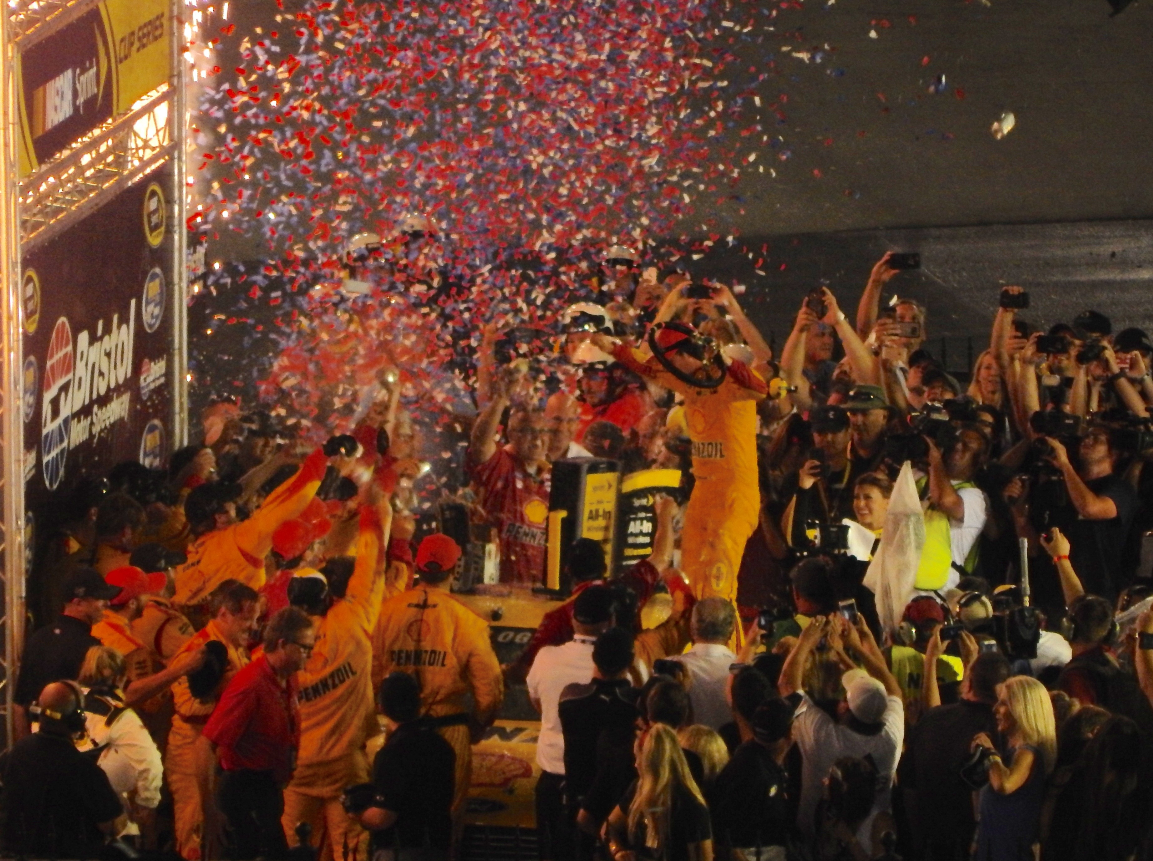 Joey Logano celebrates winning the 2015 Irwin Tools Night Race.